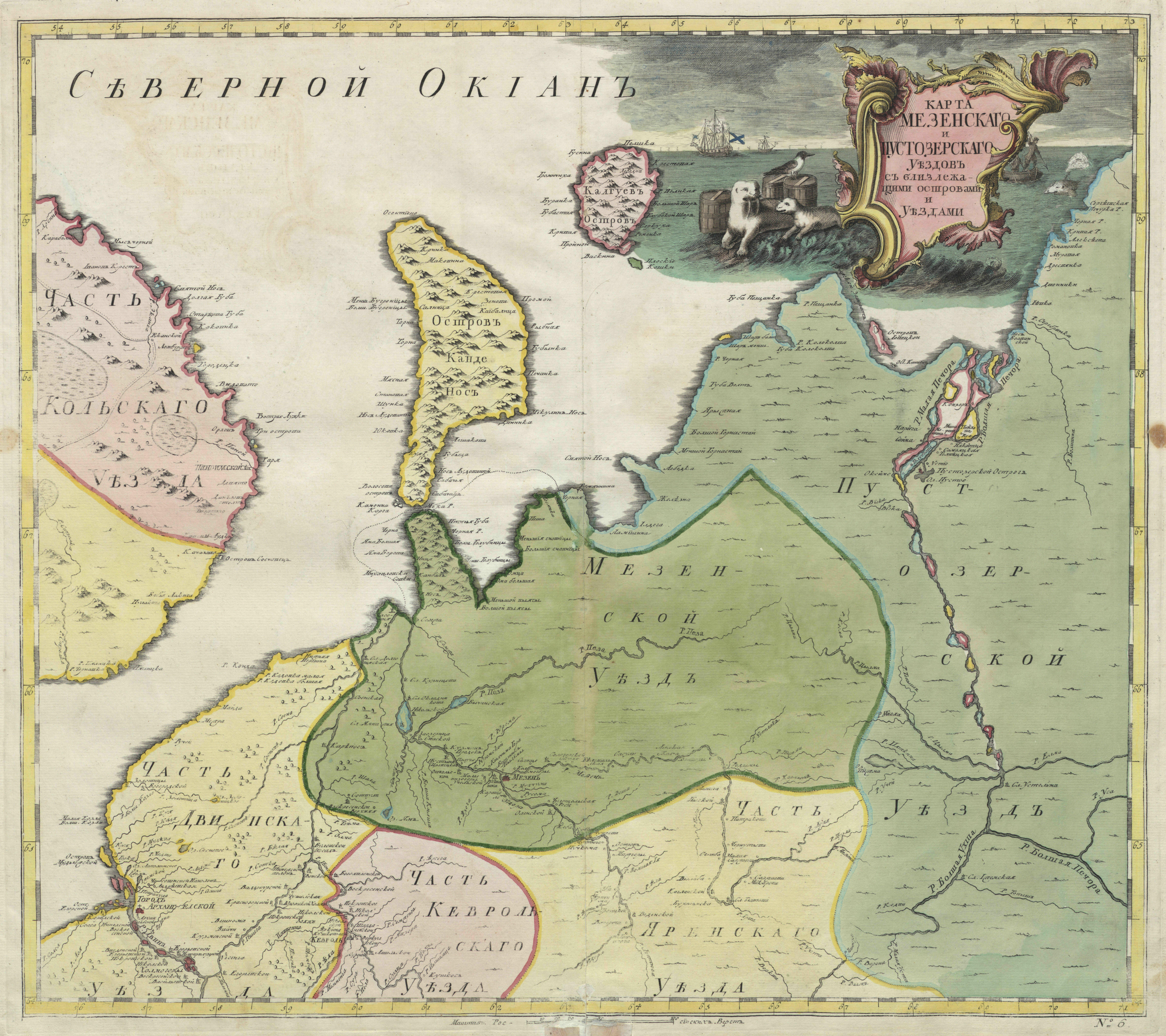 First official geographic atlas of the Russian Empire (1745). Map of Mezensky and Pustoozersky uezds, and nearest uyezds and islands. Hand-coloured copper engraving.